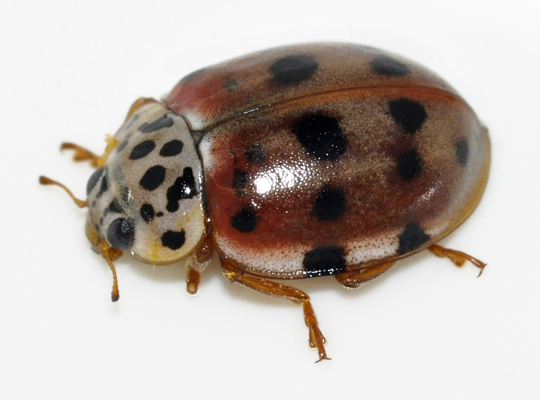 Harmonia quadripunctata (Pontoppidan, 1763). Body length 5.8 mm. Germany: Niedersachsen, Harz mountains, Landkreis Goslar, Haderbacher Teich near Clausthal-Zellerfeld.